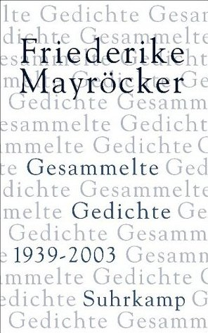 Book cover of Friederike Mayröcker "Gesammelte Gedichte 1939-2003", 2004